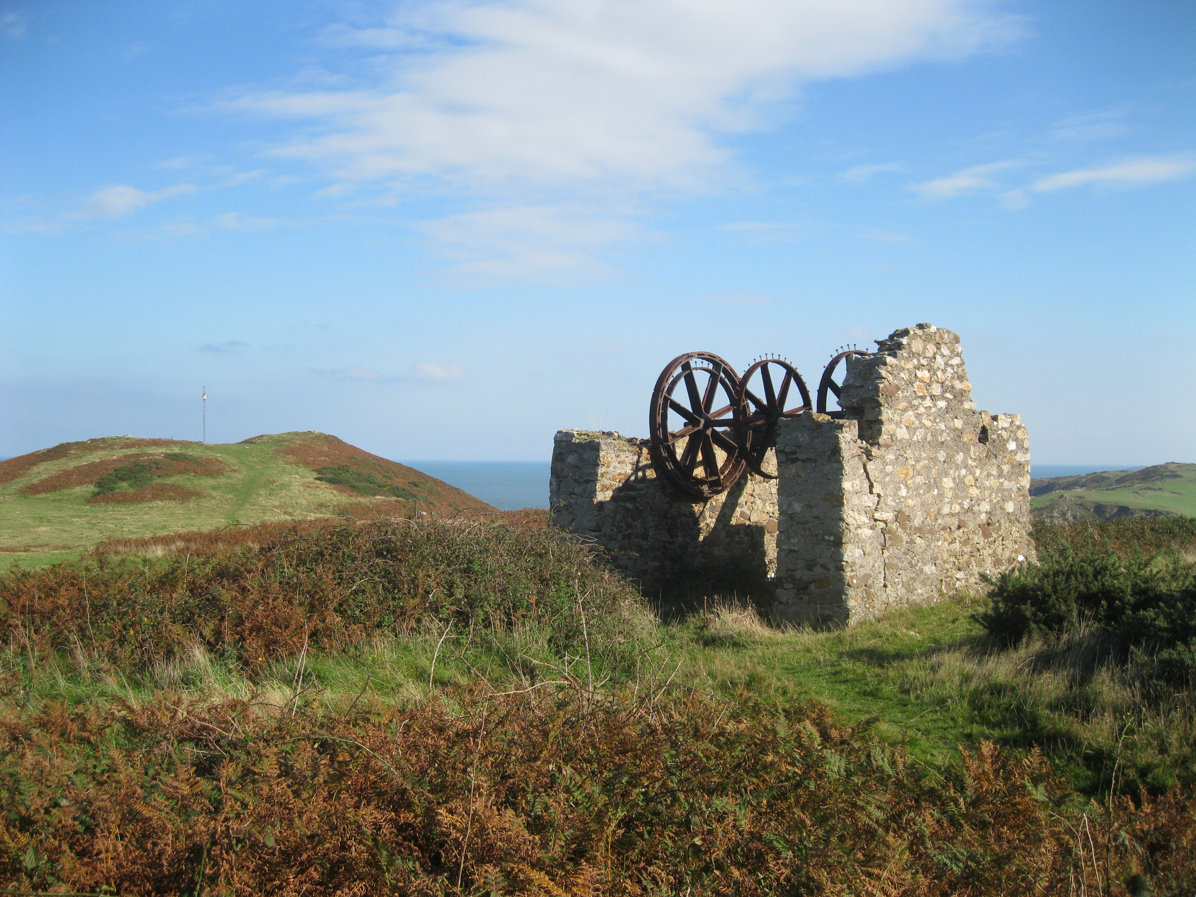 Abandoned drumhouse at Graig Wen